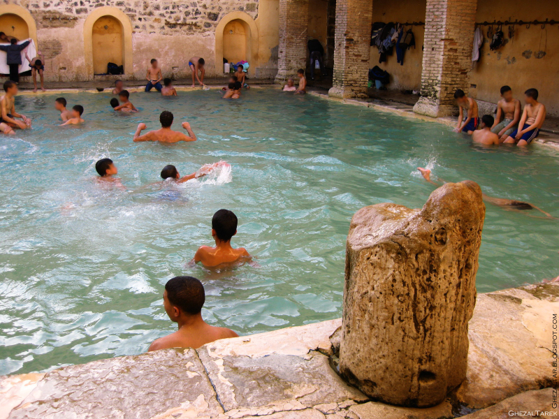 The Roman thermal bath, The Rectangular Pool Aquae Flaviane "Hammam Essalhine" Aures Khenchela